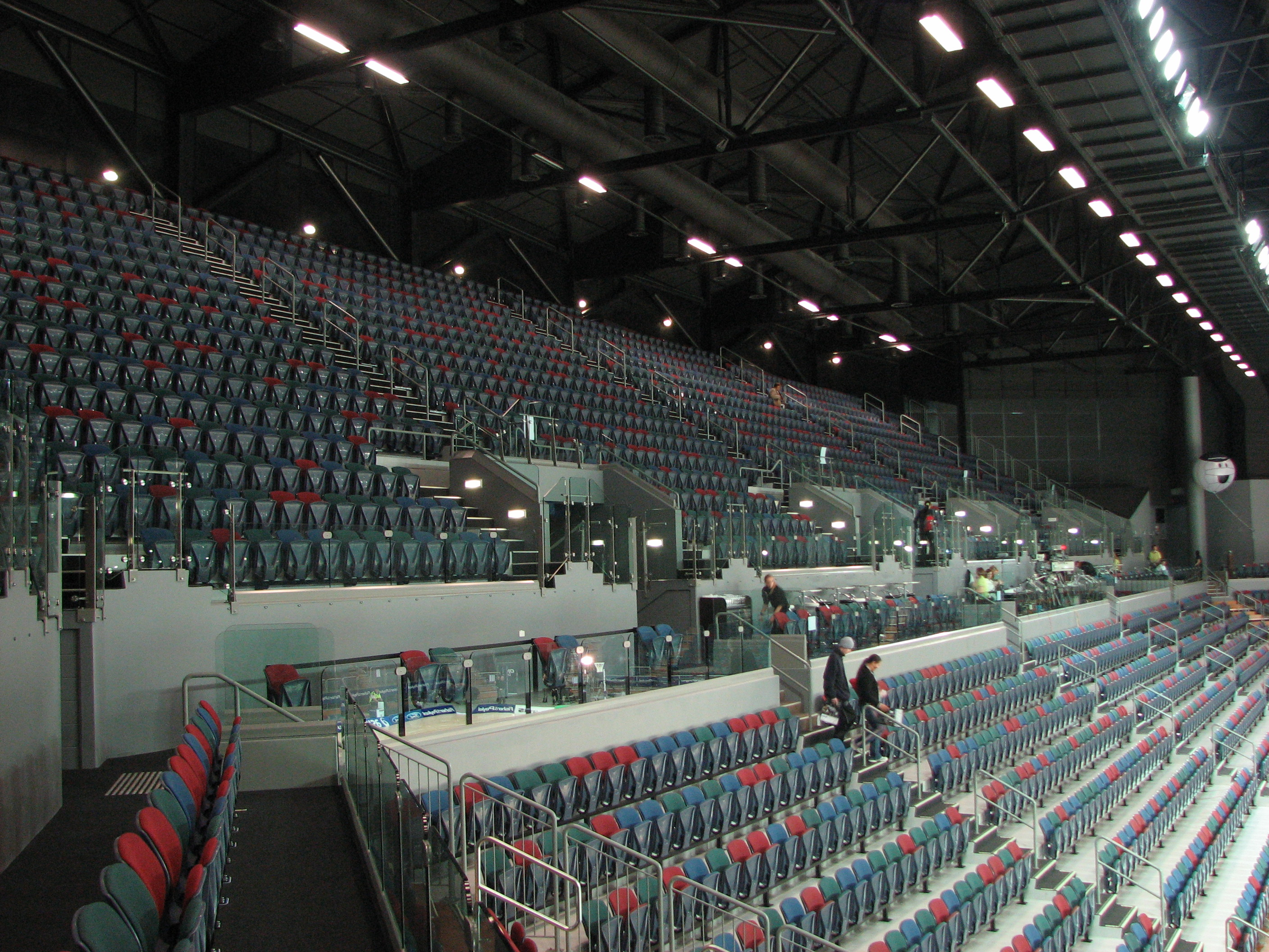 The Vector Arena, taken at the NZ/Australia netball test.